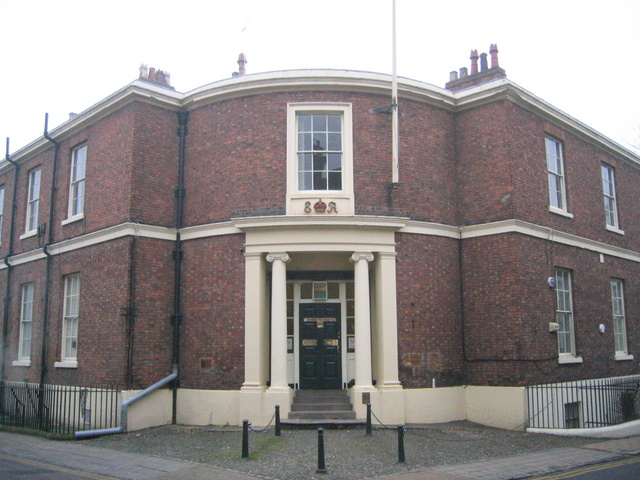 Watergate House, Watergate Street. Watergate House is on the corner of Watergate Street and Nicholas Street Mews. It was built in 1820 by Thomas Harrison for Henry Potts, his friend. From 1907 this stylish building was the headquarters of Western Command, the initials ER above the door representing Edward VII. Western Command left and Watergate House is now used as offices. See also 673757